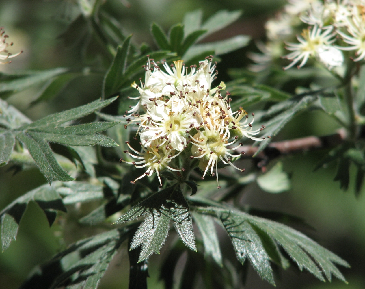 Crataegus orientalis subsp. orientalis, a species of hawthorn, in Pirianda Garden, Victoria, Australia. [The plant had been cultivated and mislabelled as Crataegus tanacetifolia: see [1].]